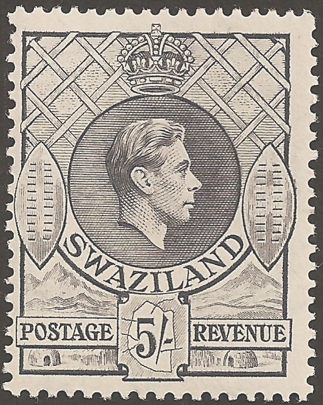 Stamp of Swaziland, colonial era, figuring King George VI, 5 shillings grey, issued 1938.